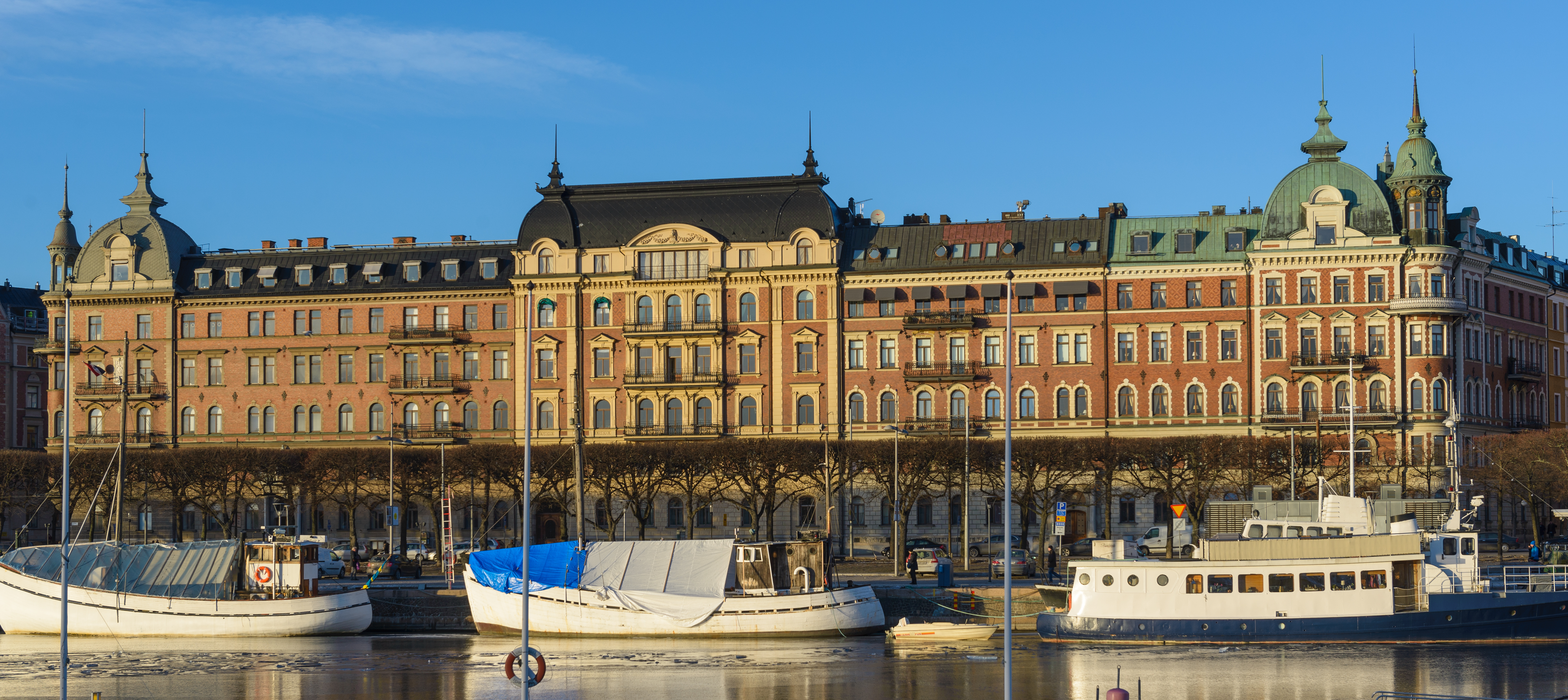 Strandvägen 35-41, Stockholm. Architect Johan Laurentz. Built 1889-90.